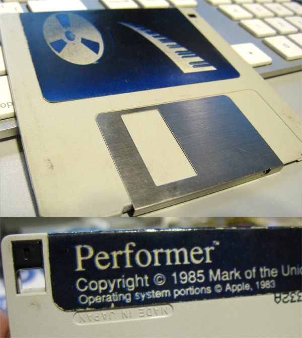 Performer FD